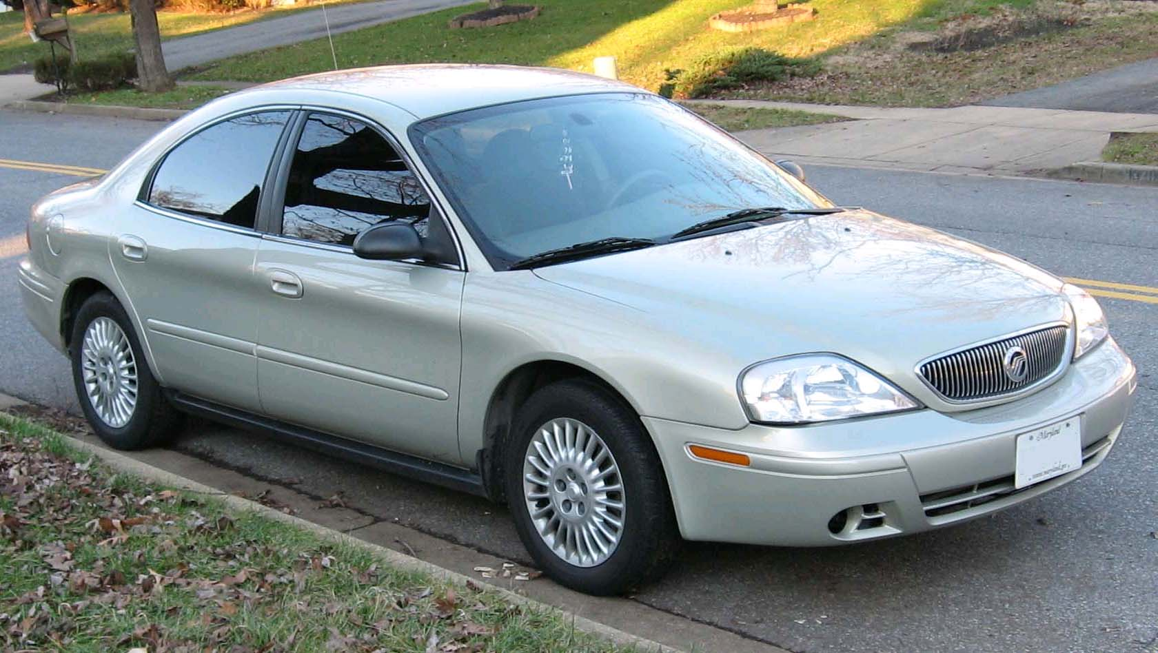 2004-2006 Mercury Sable GS photographed in USA.